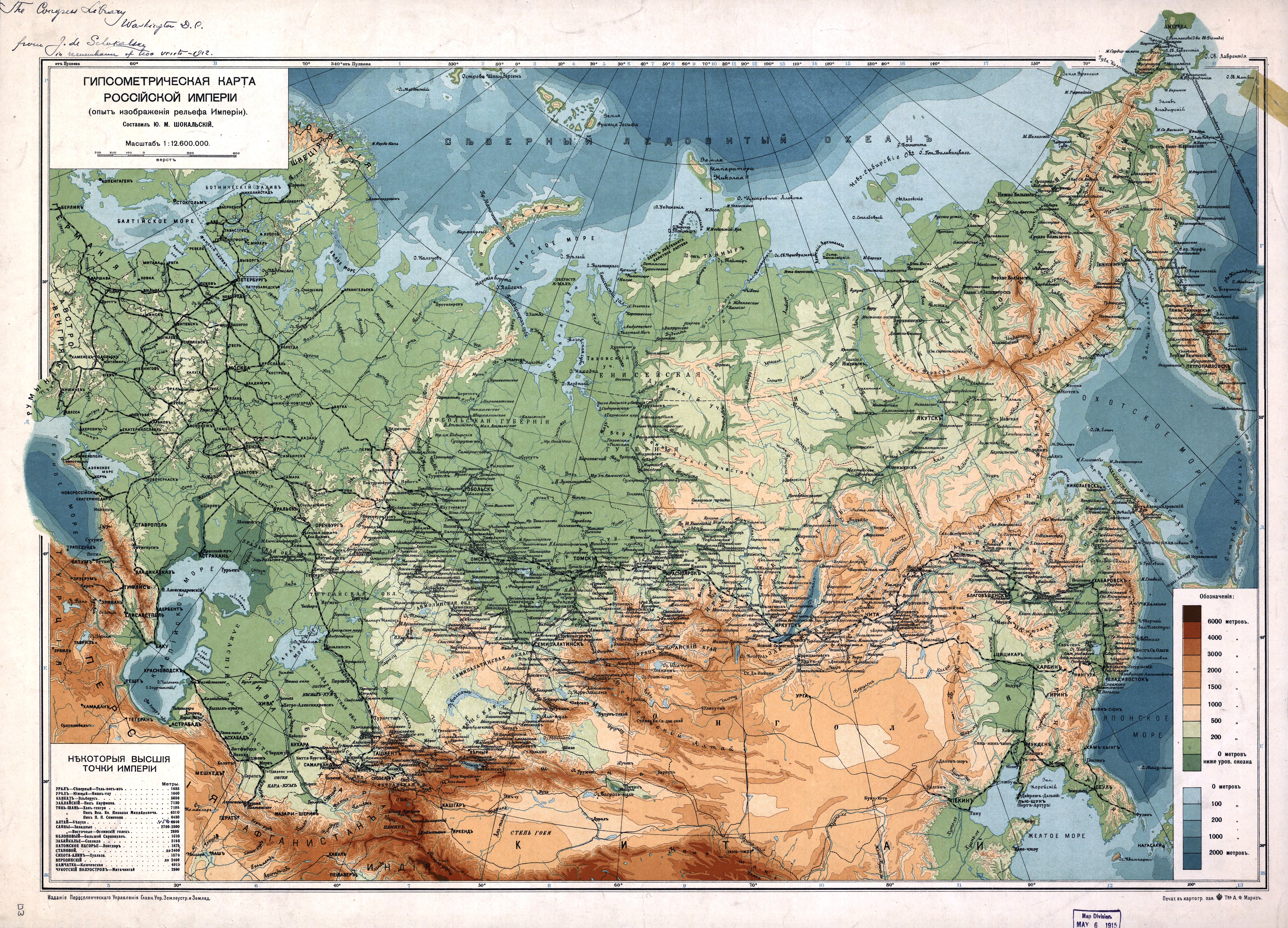 NOTES Relief and depths shown by gradient tints. Also shows railroads. In Russian. Pulkovo (St. Petersburg) meridian. Includes table of extreme high elevations. LC copy torn at edge, taped, inscribed in ink by the author in upper margin: The Congress Library, Washington D.C., from Ju. M. Šokal'skīj in remembrance of 2 visits-1912. Scale 1:12,600,000.